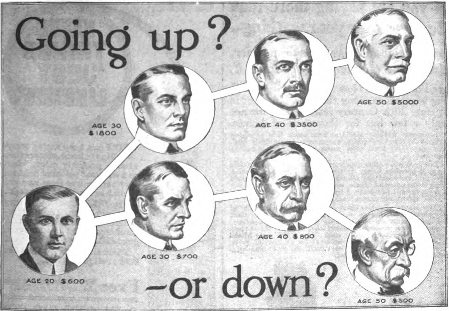 Illustration from a 1916 advertisement for International Correspondence Schools, Scranton, Pennsylvania, a vocational school, in the back of a US popular science magazine. During the Industrial Revolution, income inequality in the US was very great, and education was seen as a route to social mobility. This advertisement uses the threat of poverty to recruit students. Part of advertising copy that appeared below the picture: "Here is your future charted for you, based on the actual average earnings of trained and untrained men. Which way will you go? You'll either go up, through training, to a position that means good money and more comforts as the years go by, or you'll go down, through lack of training, into the ranks of the poorly paid."